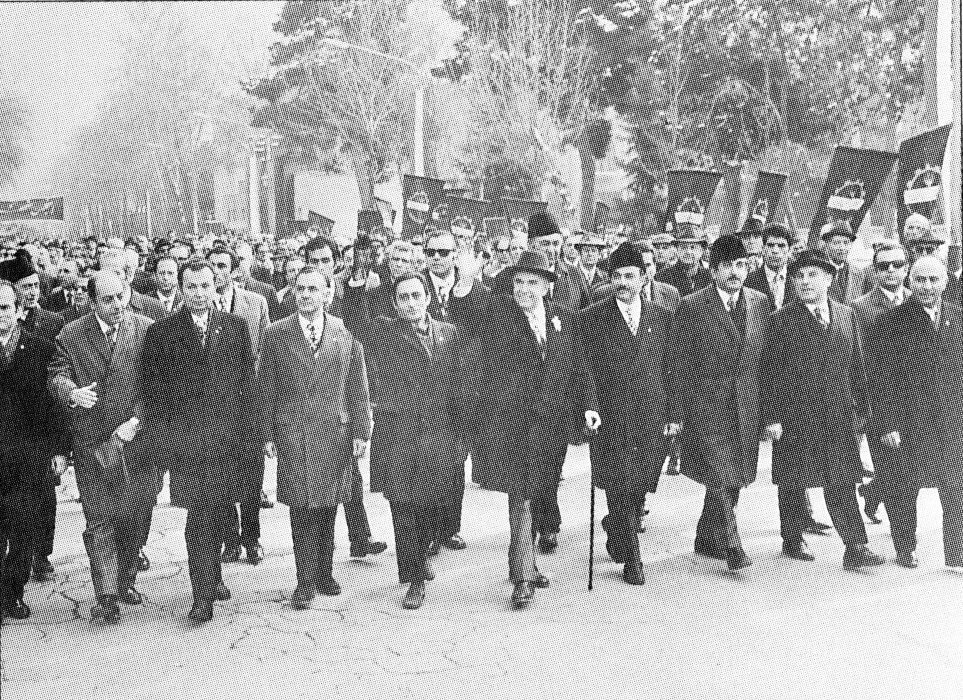 The cabinet of prime minister Hoveyda, 1975